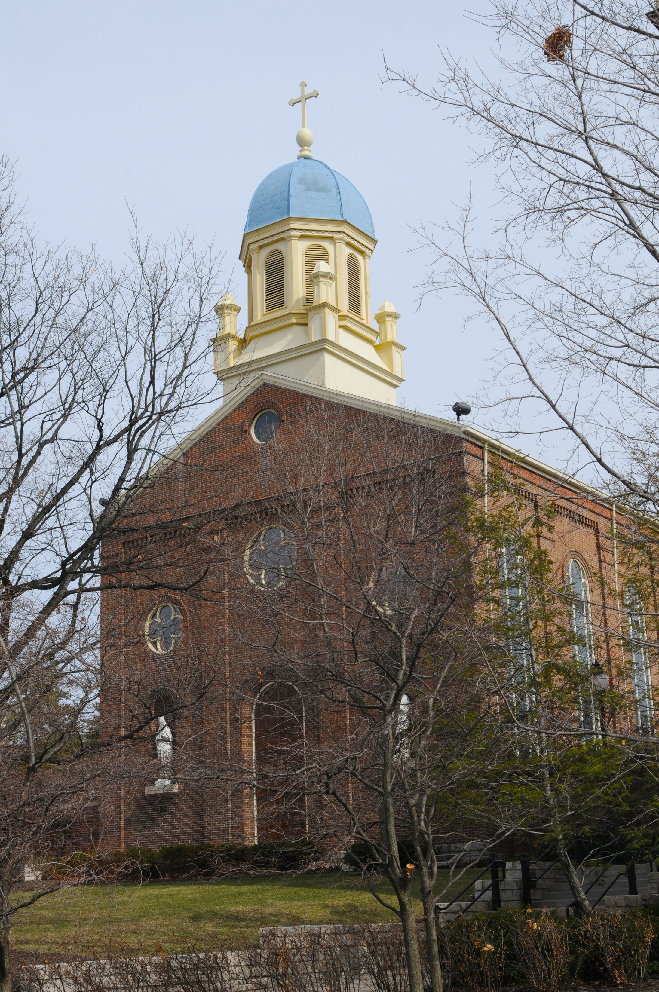 The Immaculate Conception Chapel at the University of Dayton was built in 1869.